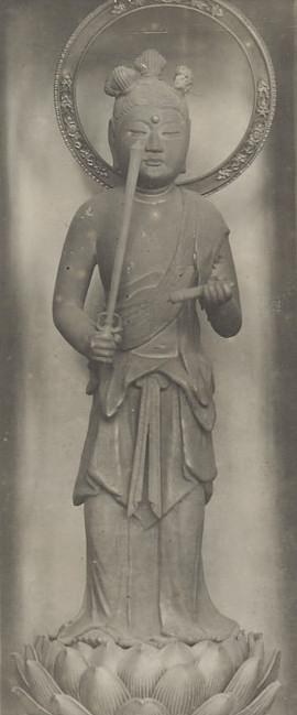 Monju Bosatsu from Chuguji, Tokyo National Museum, Japan